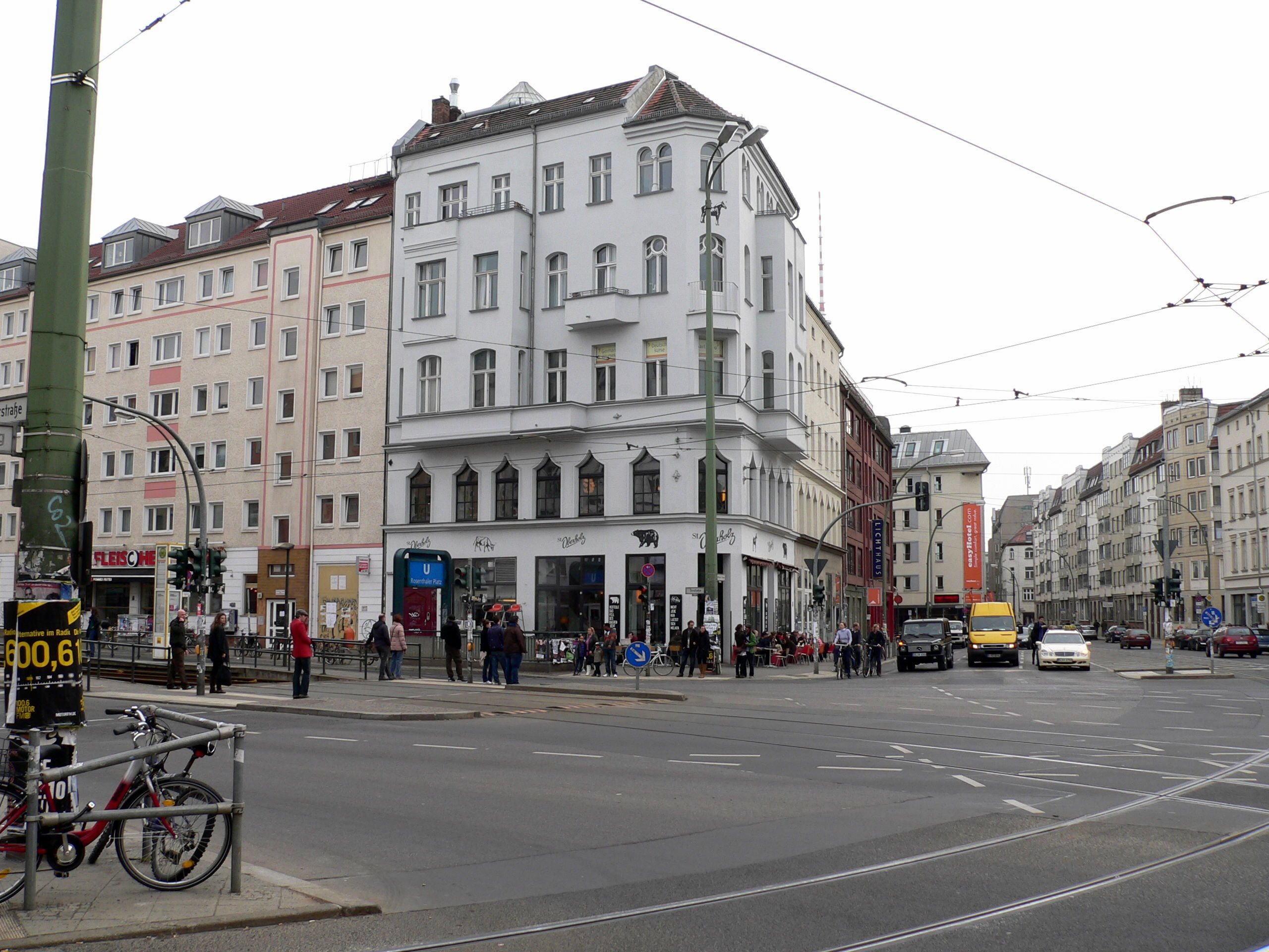 Berlin-Mitte Rosenthaler Platz